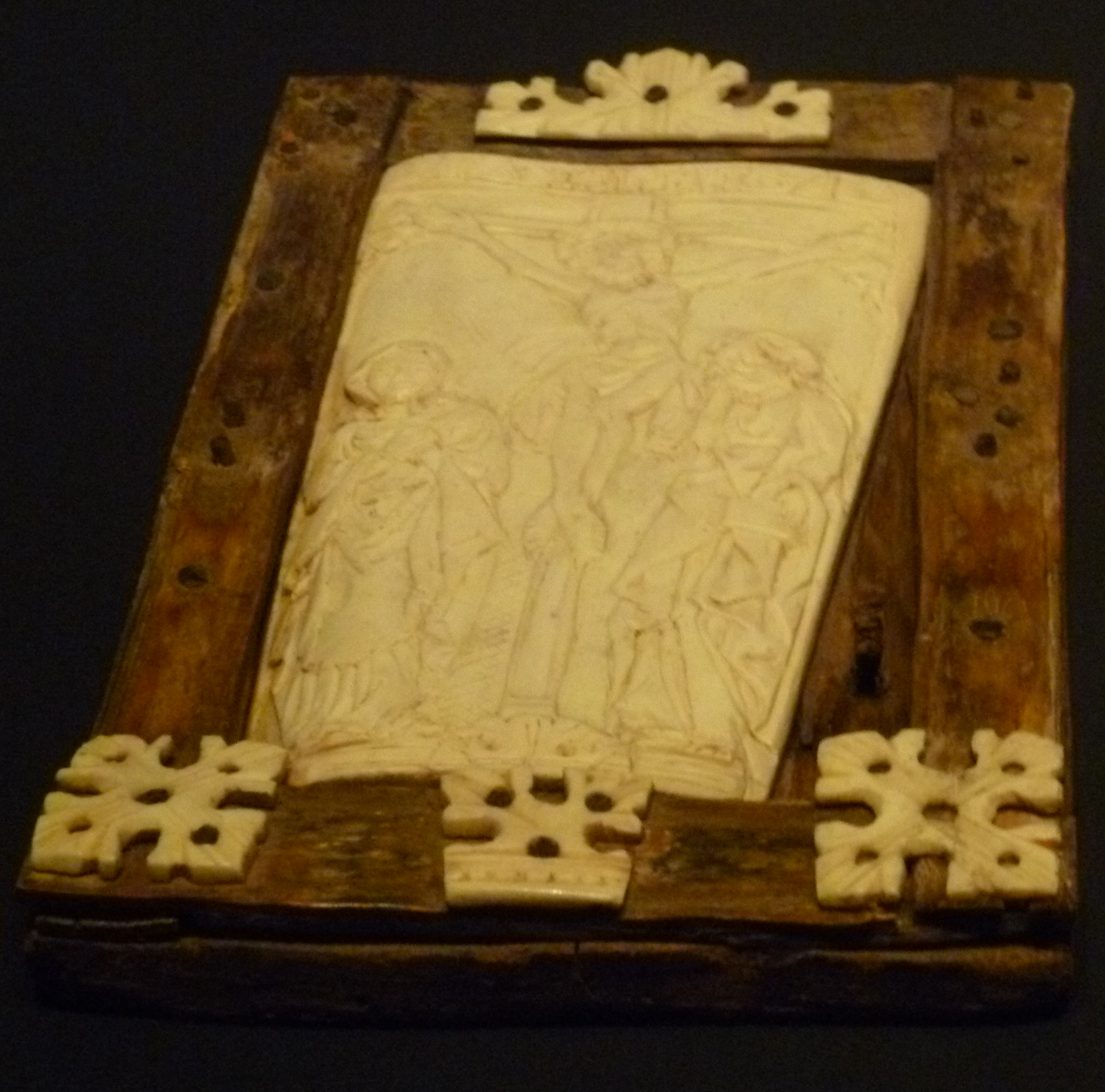 Late medieval 'peace board' (Iceland)